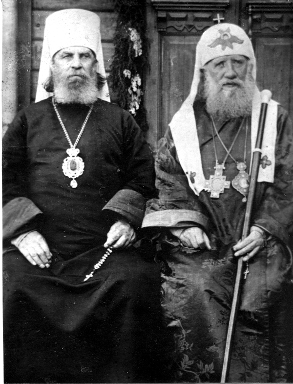 Petr (Polyansky) and Рatriarсh Tikhon in Serpukhov